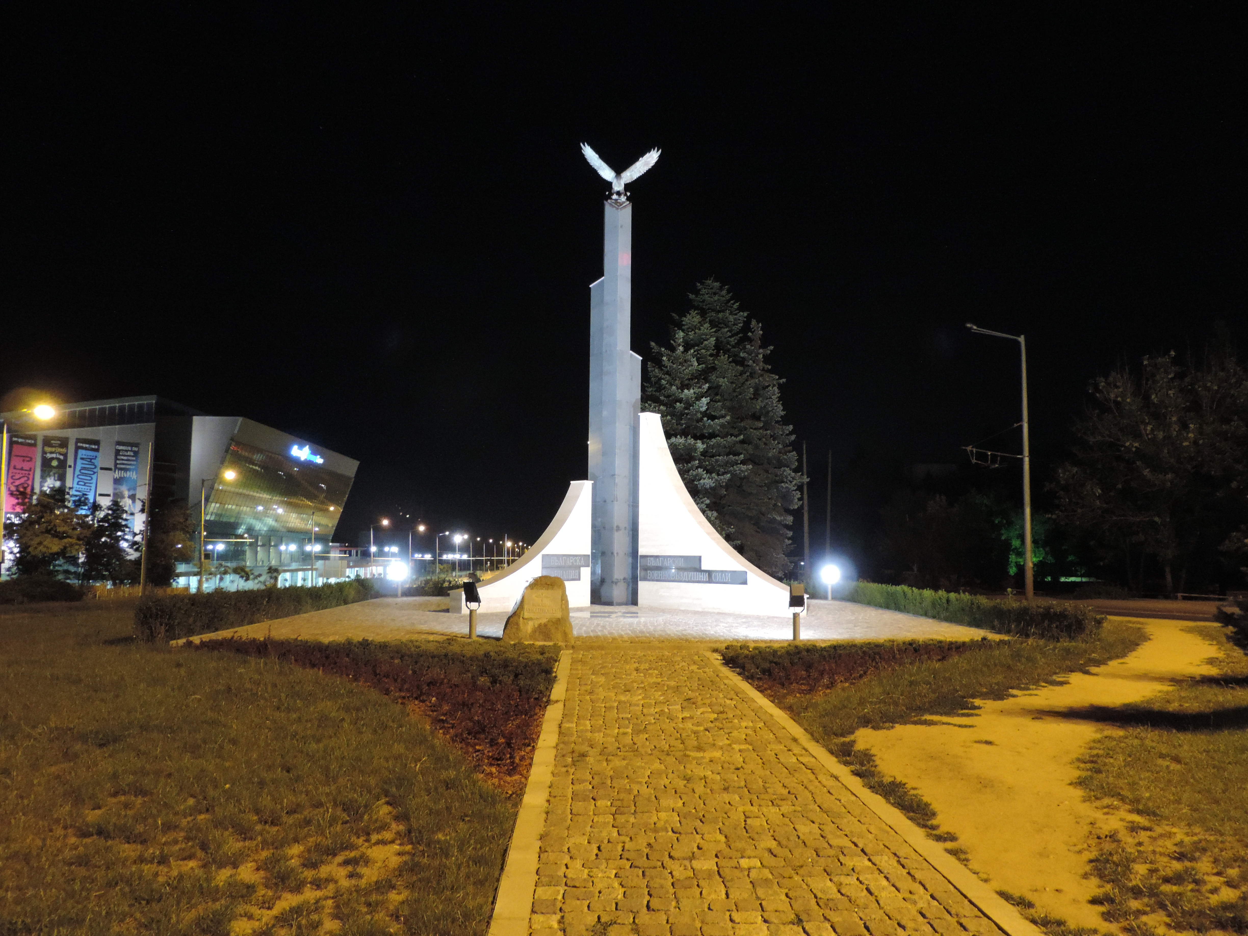 Monument of aviation and air force by night, Sofia, Bulgaria.